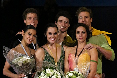 The ice dancing podium at the Trophée Eric Bompard 2013. From left: Elena Ilinykh / Nikita Katsalapov (2nd), Tessa Virtue / Scott Moir (1st),Nathalie Péchalat / Fabian Bourzat (3rd).